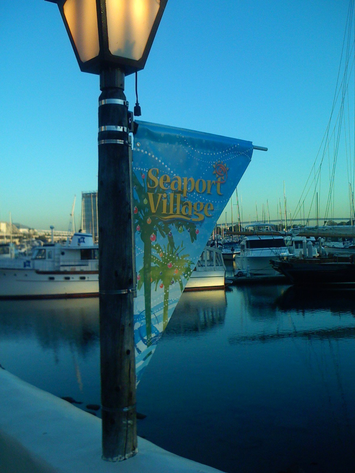 Lamp at Seaport Village, San Diego